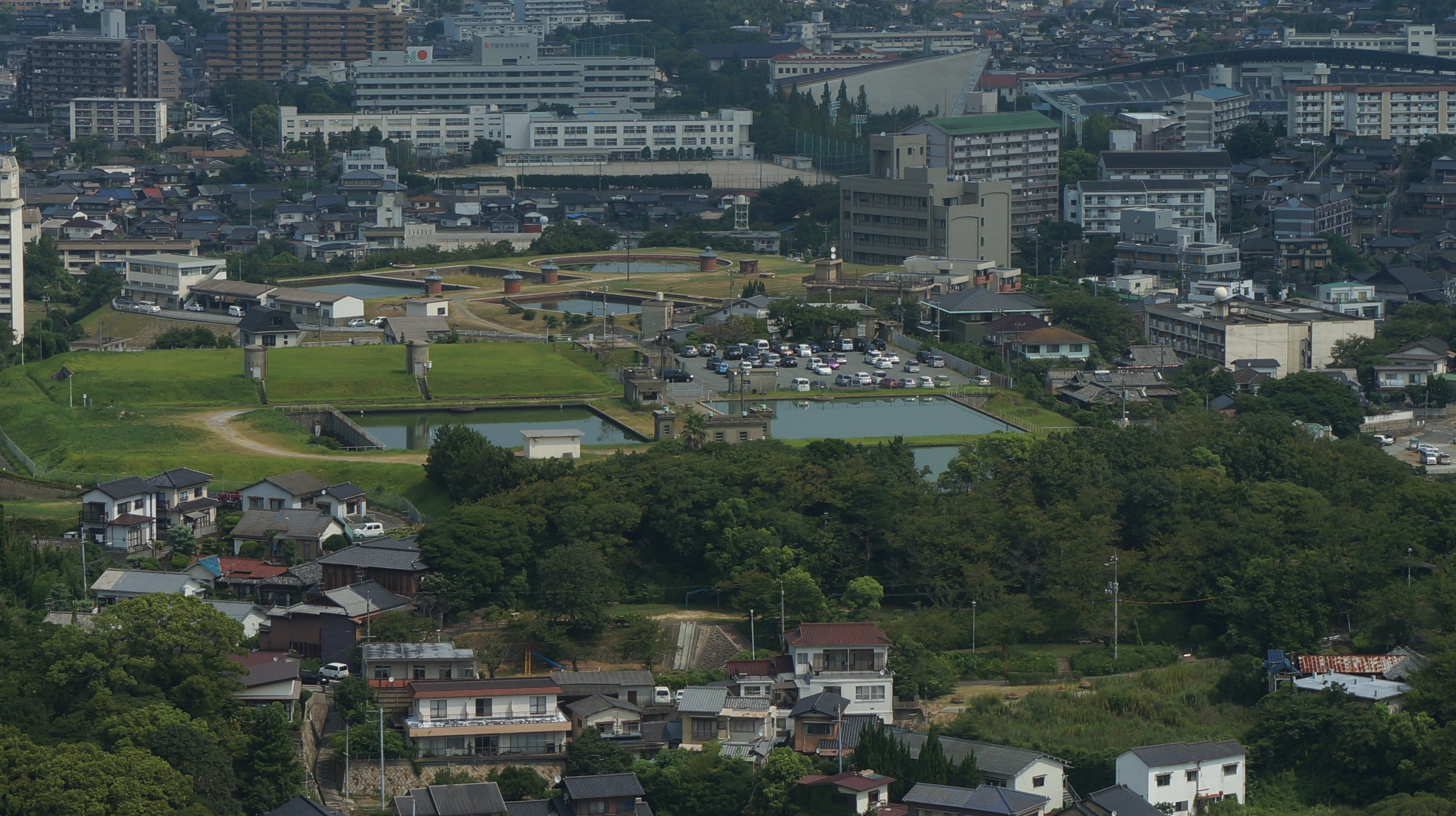 Takao (in the back) and Hiyoriyama (in the front) Jousuijou(water treatment plant). The basic plan of Takao plant was made by William Kinninmond Burton, and constructed by Touji Takigawa in 1906.